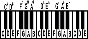 Illustration of note names on a piano keyboard. Public domain clipart from Artist - Gerald G.